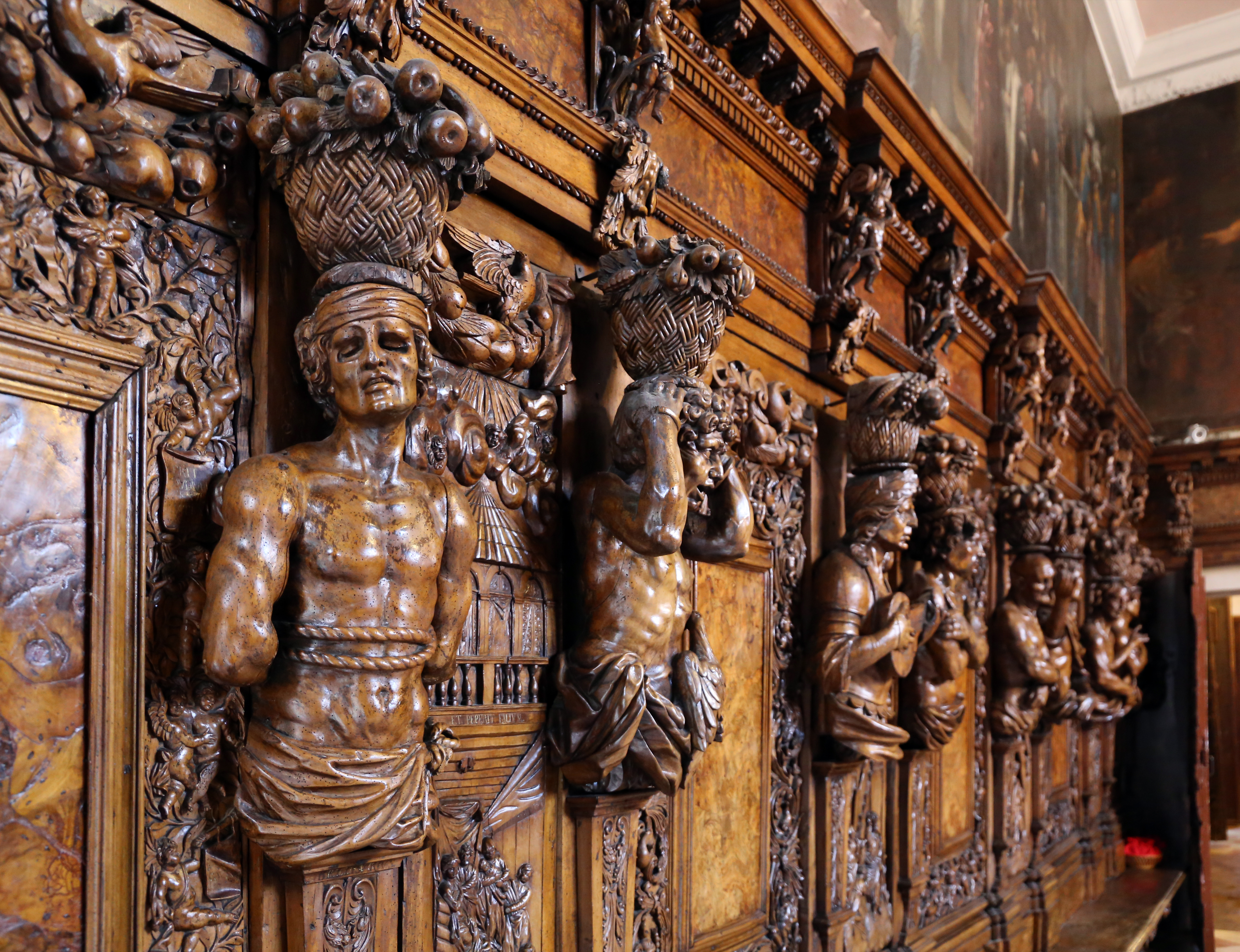 San Pietro Martire (Murano) - Vestry